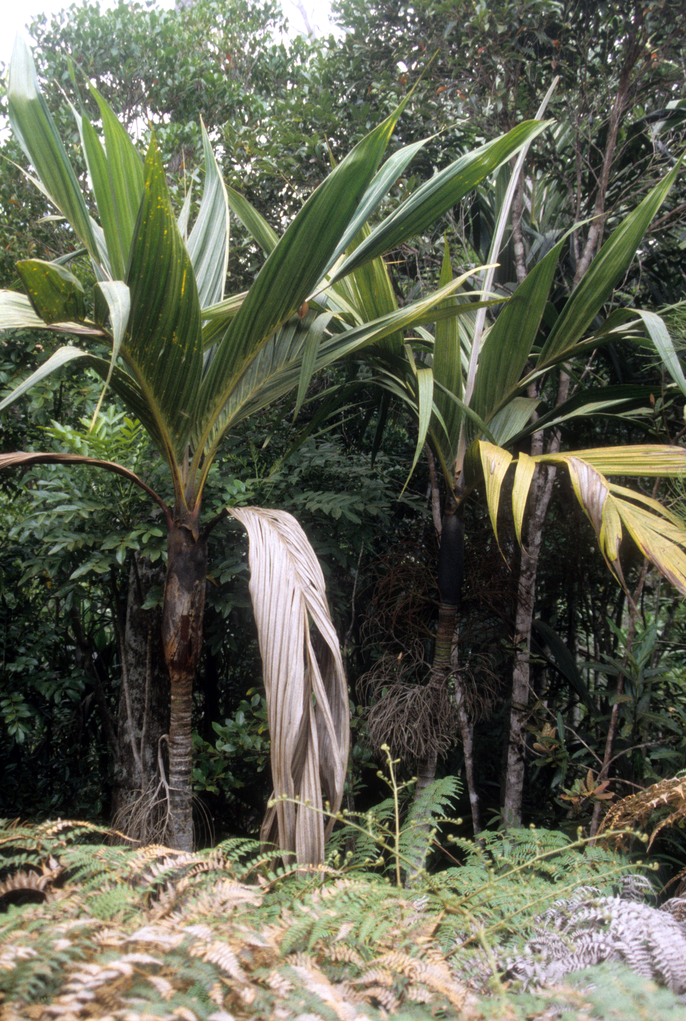 Basselinia pancheri, Galliéni Mine, New Caledonia. Oct 2000.